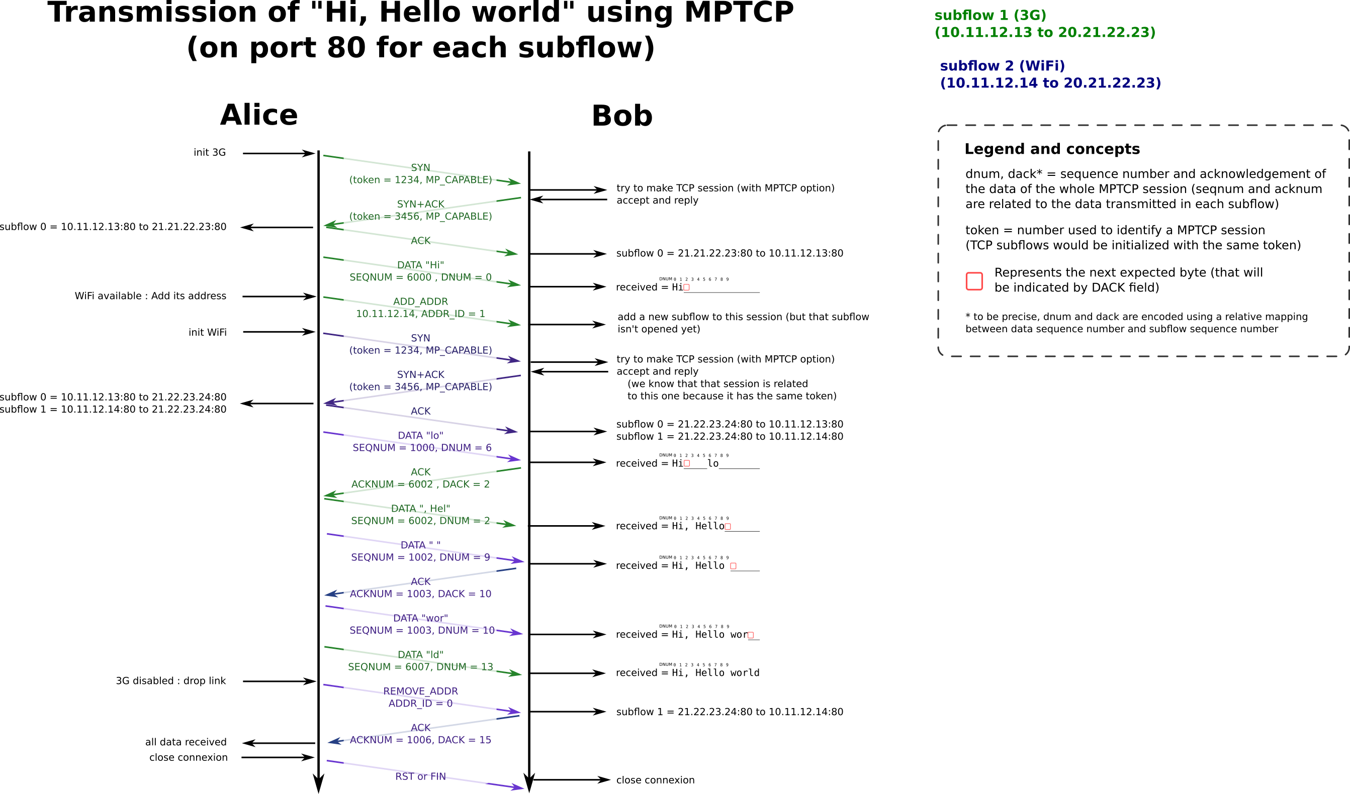 Example of a full multipath TCP session. We'll assume that Alice is talking to Bob. Alice is connected on 3G. She activates WiFi and then, she loses 3G connectivity.